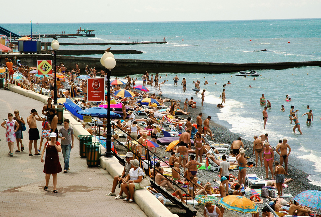 “Sochi”. A beach in Sochi.